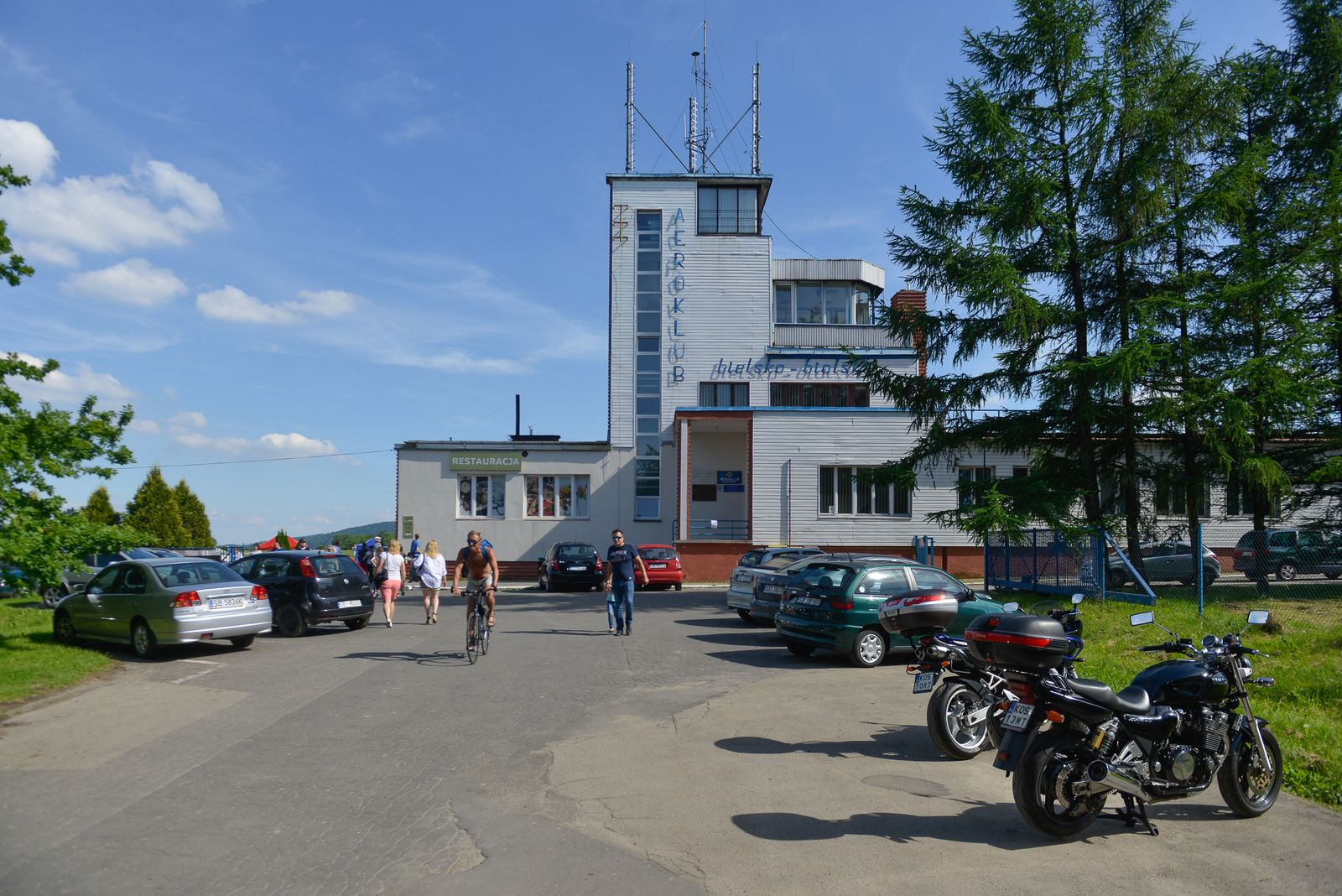 Civil building of sport airport of Bielsko-Biala Aero Club in Aleksandrowice